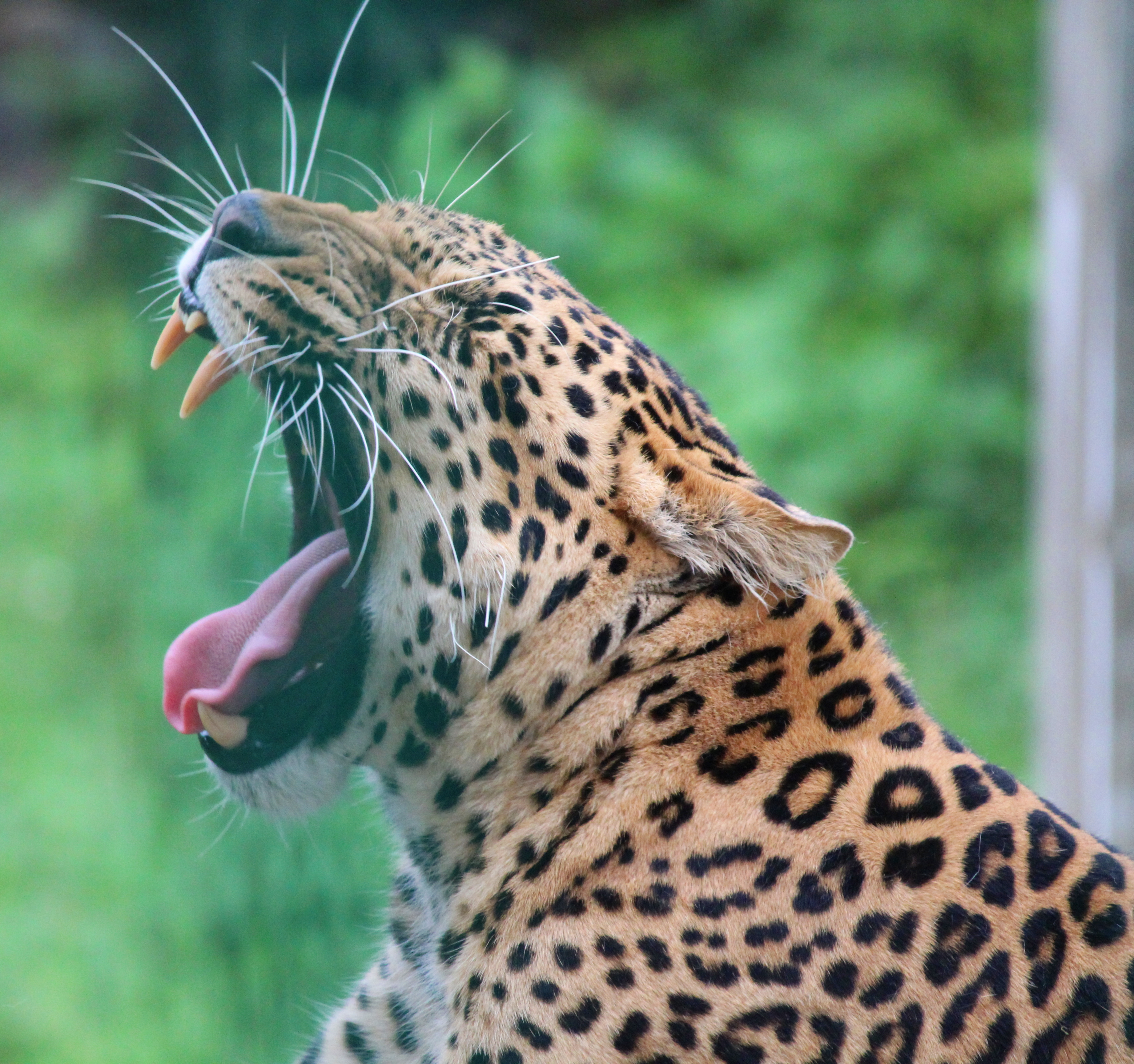 Lazy Leopard is yawning after a nap in Kufri Zoo.